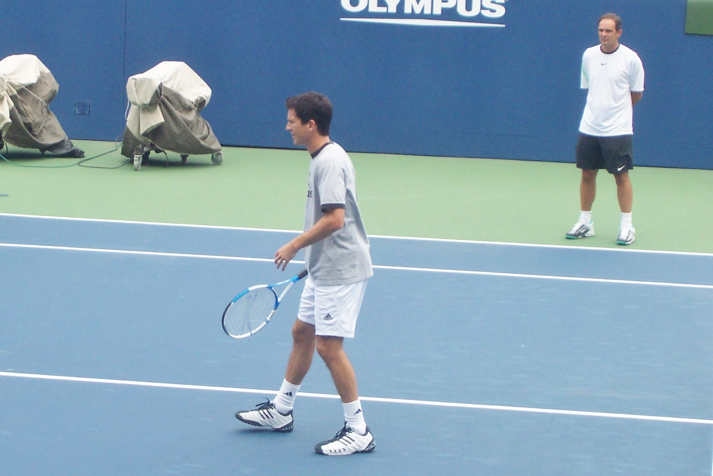 Paul Annacone coaching Tim Henman